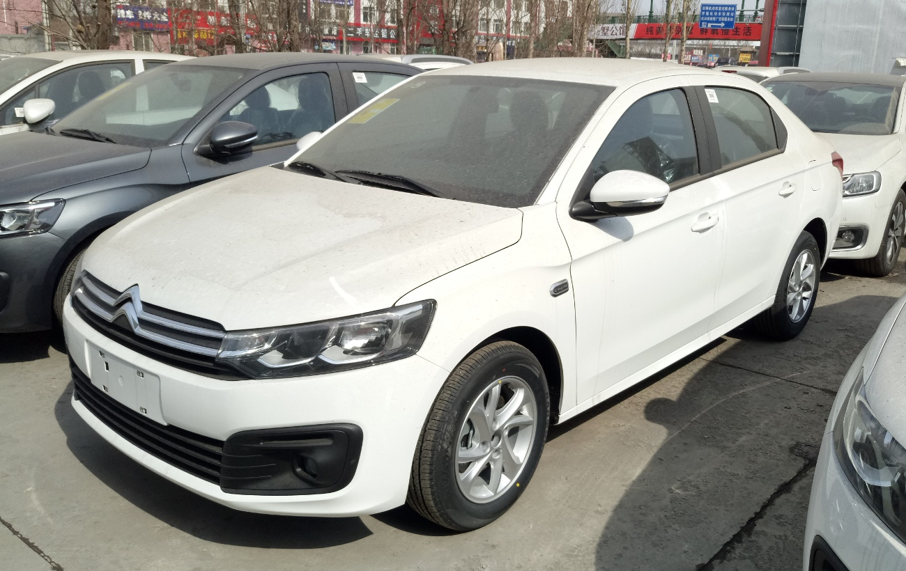 Citroën C-Elysée II facelift photographed in Harbin, Heilongjiang province, China.